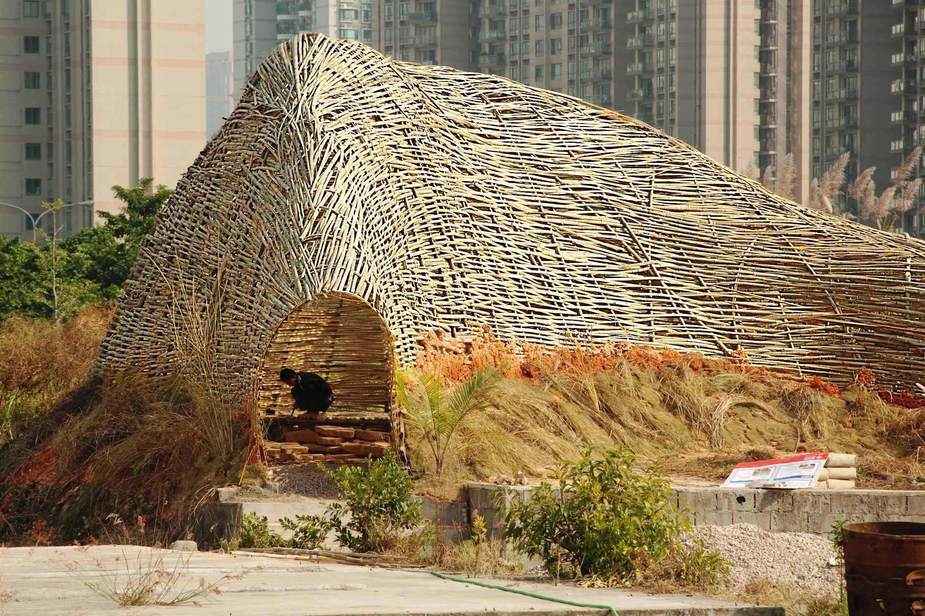 Bug Dome by the WEAK! (Hsieh Ying-chun, Marco Casagrande, Roan Ching-yueh) at the SZHK Biennale 2009.